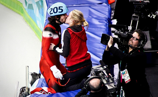 Hamelin kisses girlfriend Marianne St-Gelais after winning the gold at the 2010 Winter Olympics